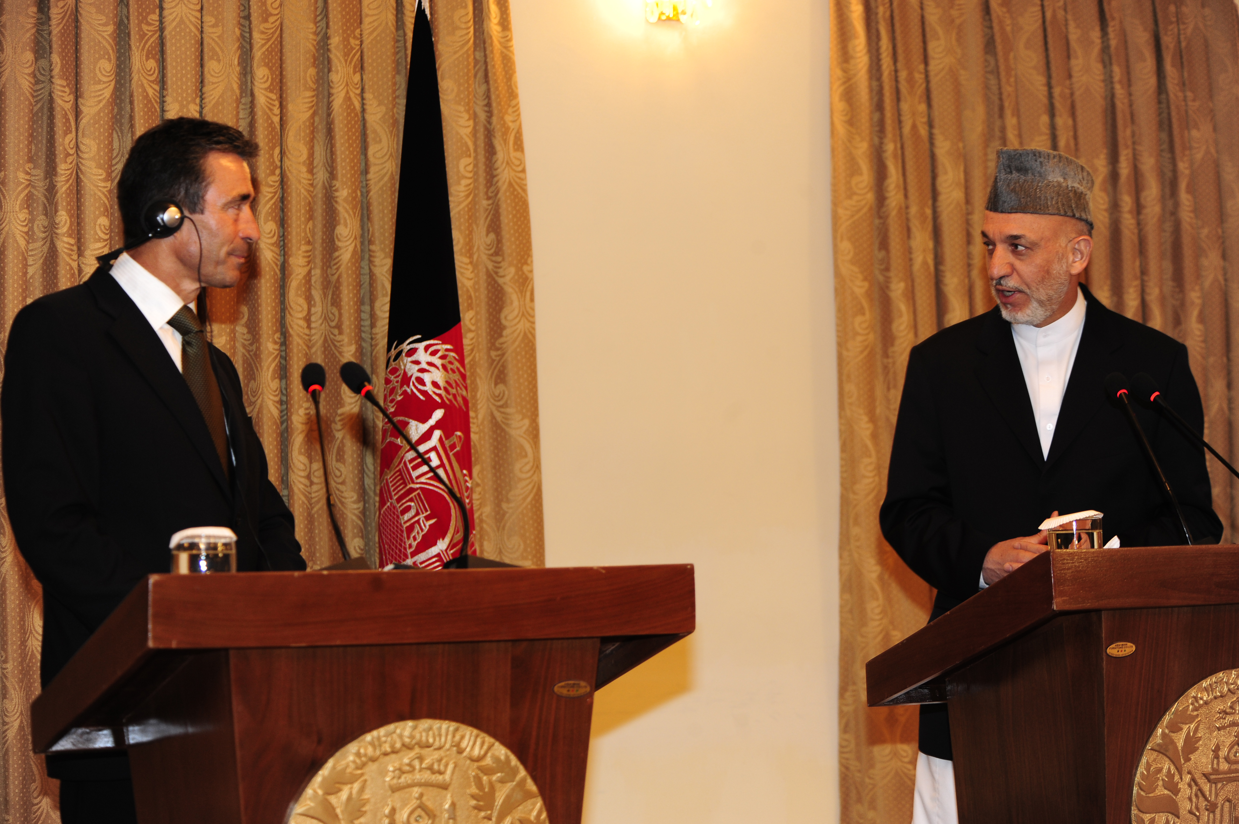 KABUL, Afghanistan- Afghan President Hamid Karzai introduces NATO’s newly appointed Secretary General, Anders Fogh Rasmussen during a joint press conference at the presedential palace. Image by MSgt Chris Haylett